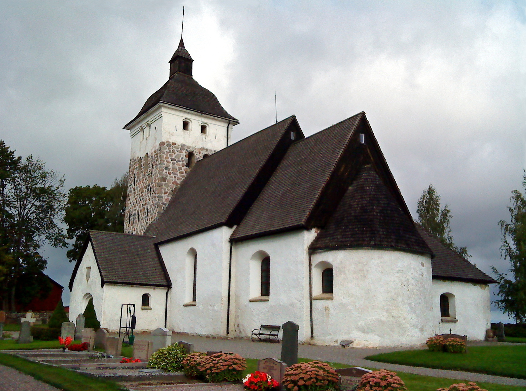 This is the Balingsta church in Uppsala diocese, Uppland, Sweden. Pic shot from south east